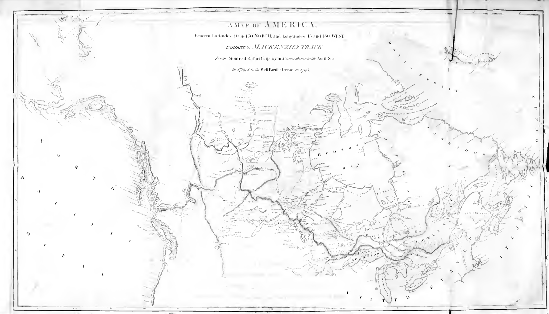 McKenzie, Alexander - Voyages from Montreal, on the river St. Laurence, through the continent of North America, …